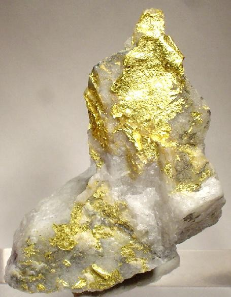 Gold, Quartz Locality: Red Lake Mine (Goldcorp Mine; Arthur White Mine), Balmertown, Red Lake Gold District, Kenora District, Ontario, Canada (Locality at ) An AESTHETIC and OUTSTANDING leaf gold specimen on milky quartz from the famous Red Lake Mine of Ontario. The lustrous, largest gold leaf is incredibly well-placed on the upper part of the "leg" of the boot-shaped milky quartz. The piece sits up very well, without any props. 5.0 x 4.2 x 3.5 cm